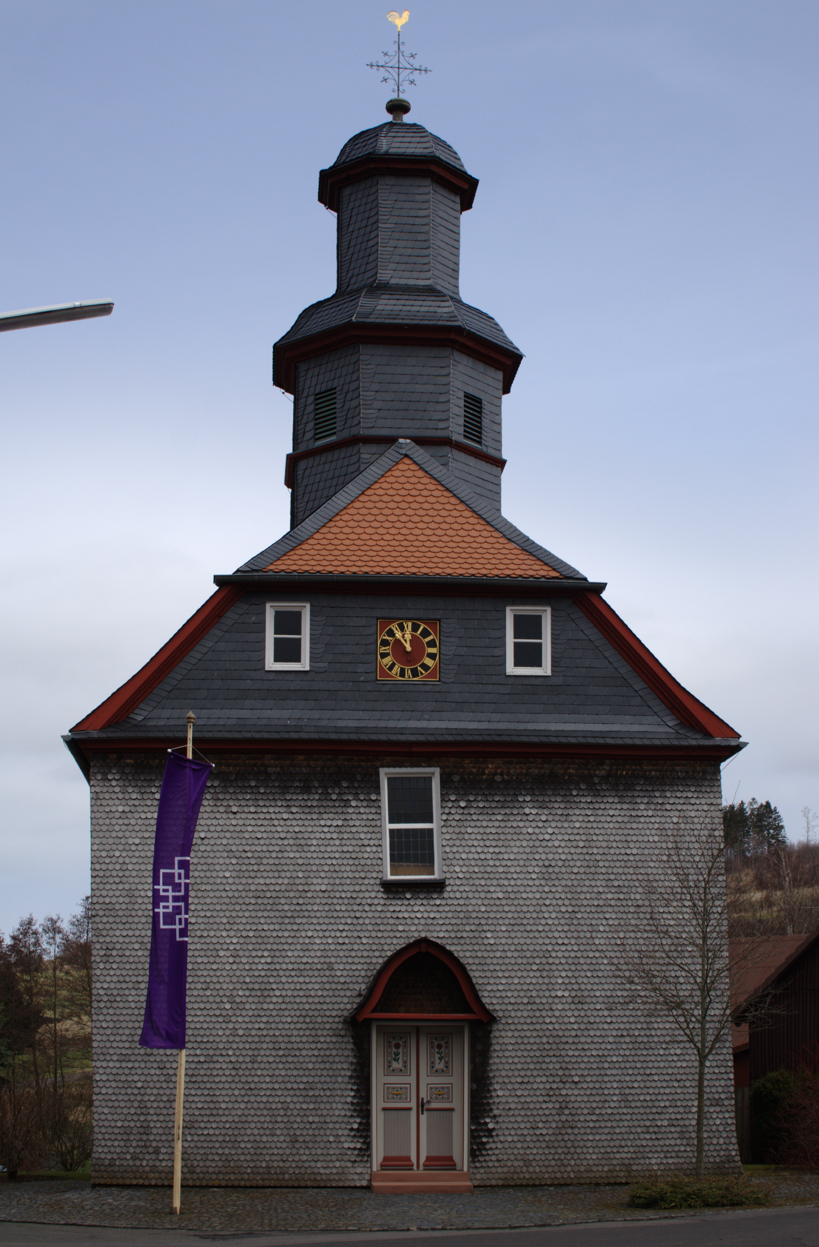 Protestant church in Ulrichstein, Feldkruecken Schulstrasse , Hesse, Germany